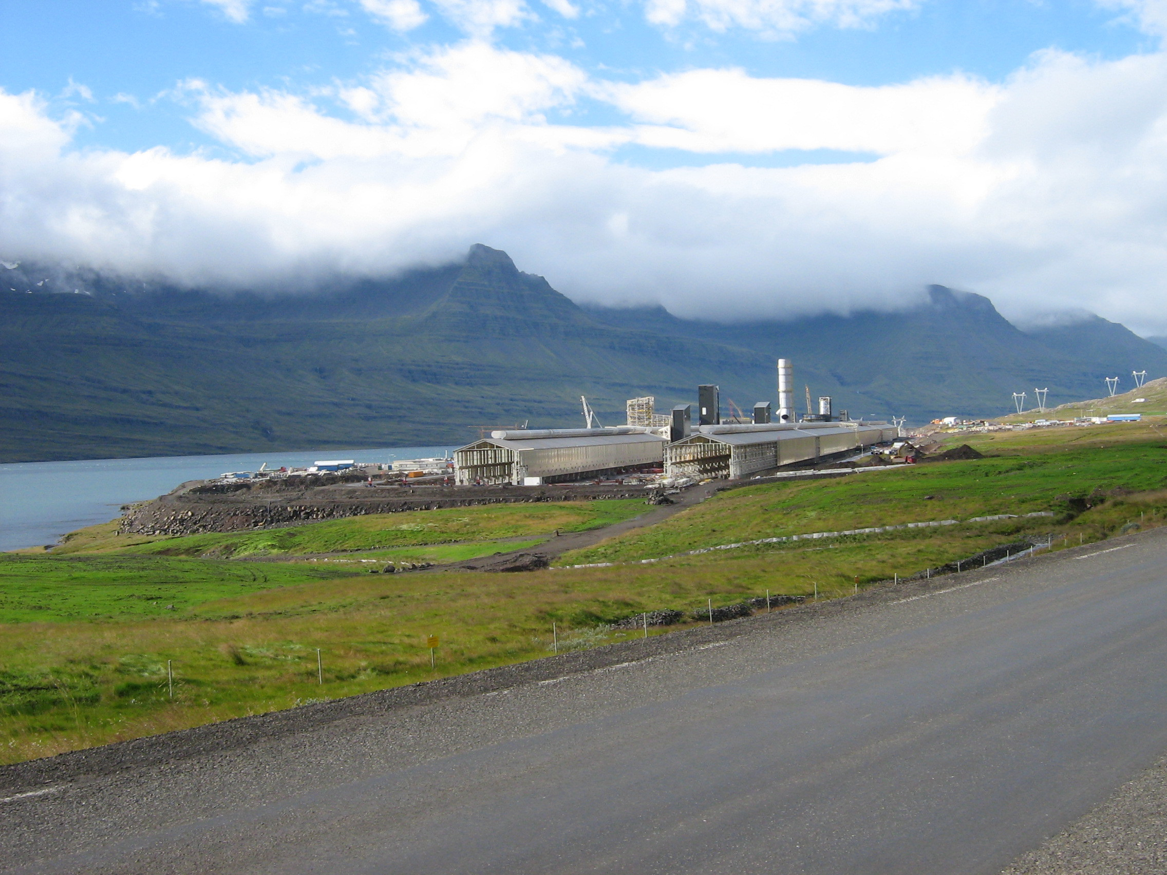 Fjarðarál, aluminium plant which will be power by the electricity generated by the Kárahnjúkadam.